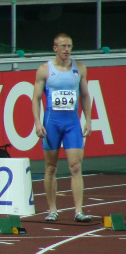 World Athletics Championships 2007 in Osaka - Matic Osovnikar preparing for the Men's 100 metres final race